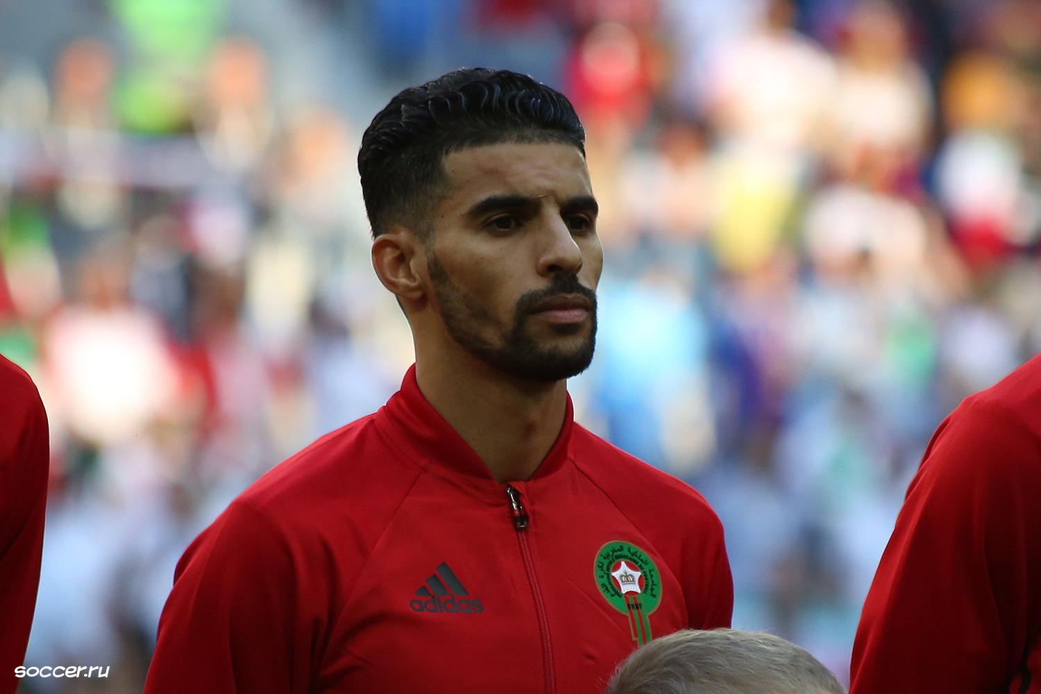 Iran-Morocco match, 2018 FIFA World Cup